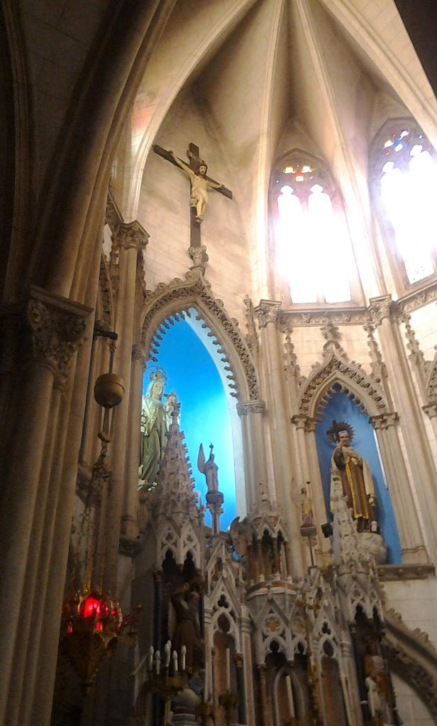 Photograph the Carmo Church located in Rio Grande, southern Brazil. It was built in neo-Gothic style.